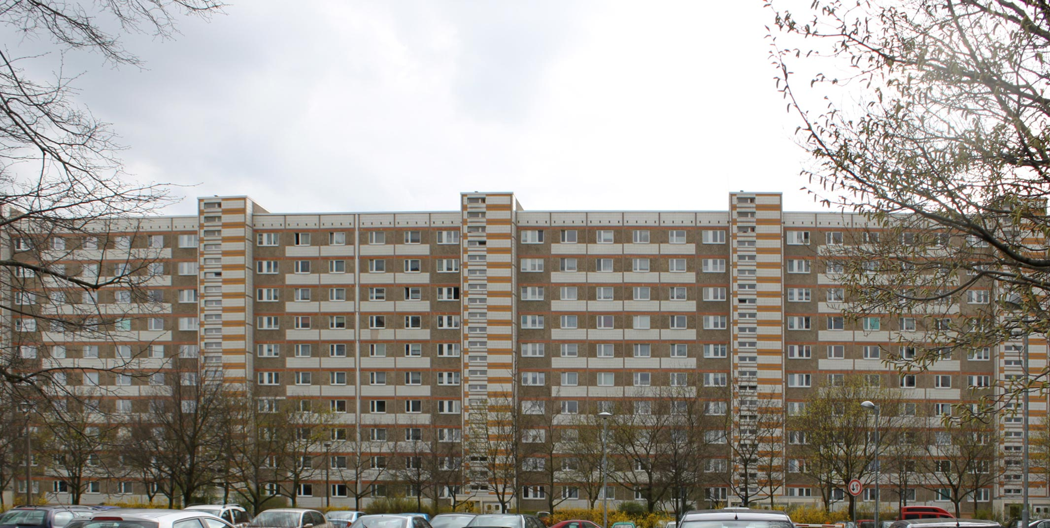 Elevation of prefab housing type M10 (East Germany) in Magdeburg Neustädter See, this picture shows the un-altered original version of the facade with white and orange glass tiles